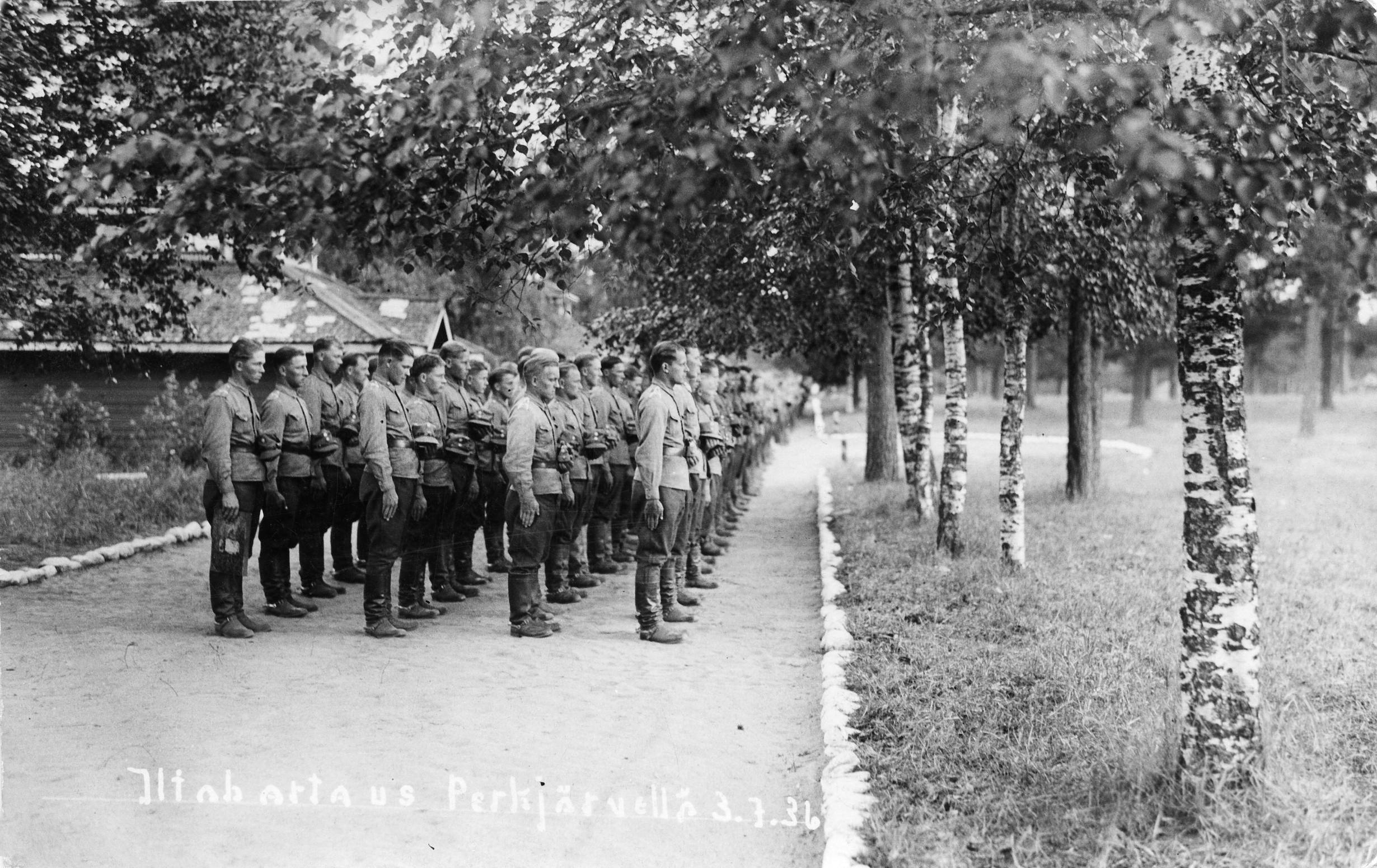 Finnish conscripts in the Perkjärvi Artillery Camp, Karelian Isthmus, Finland, Friday 3rd July 1936